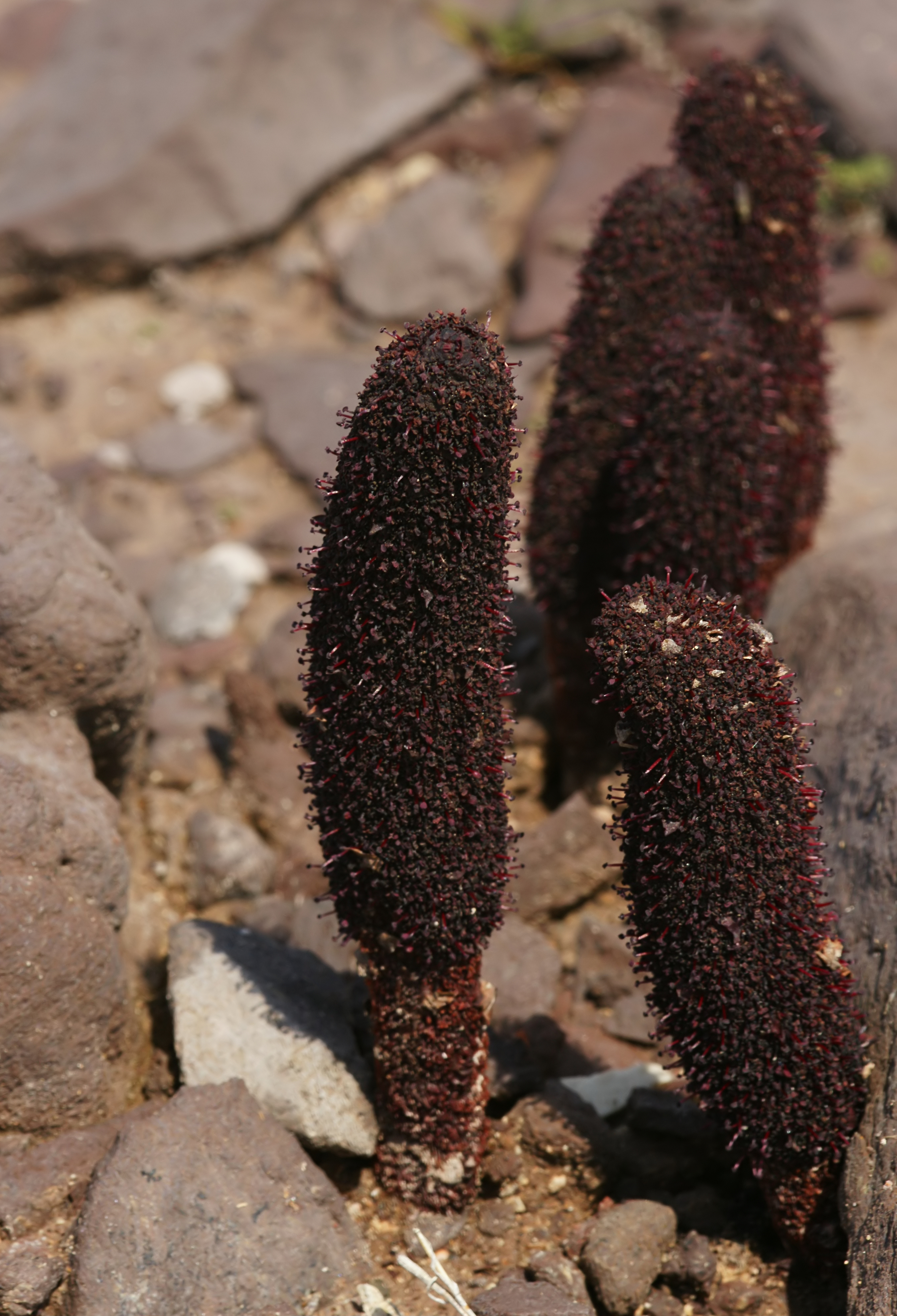 Holoparasite on Chenopodiaceae, close to Sant'Antioco, Sardinia, Italy.